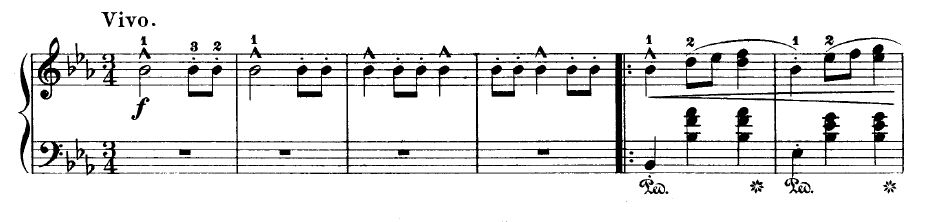 The Grande Valse brillante in E-flat major, Op. 18 - Frédéric Chopin